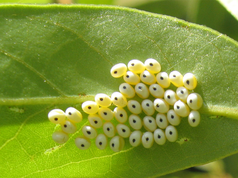 Cropped photo of Io moth eggs. See original for more info.